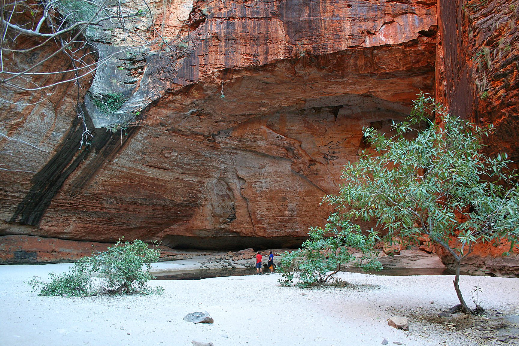 Cathedral Gorge at Purnululu NP (WA)